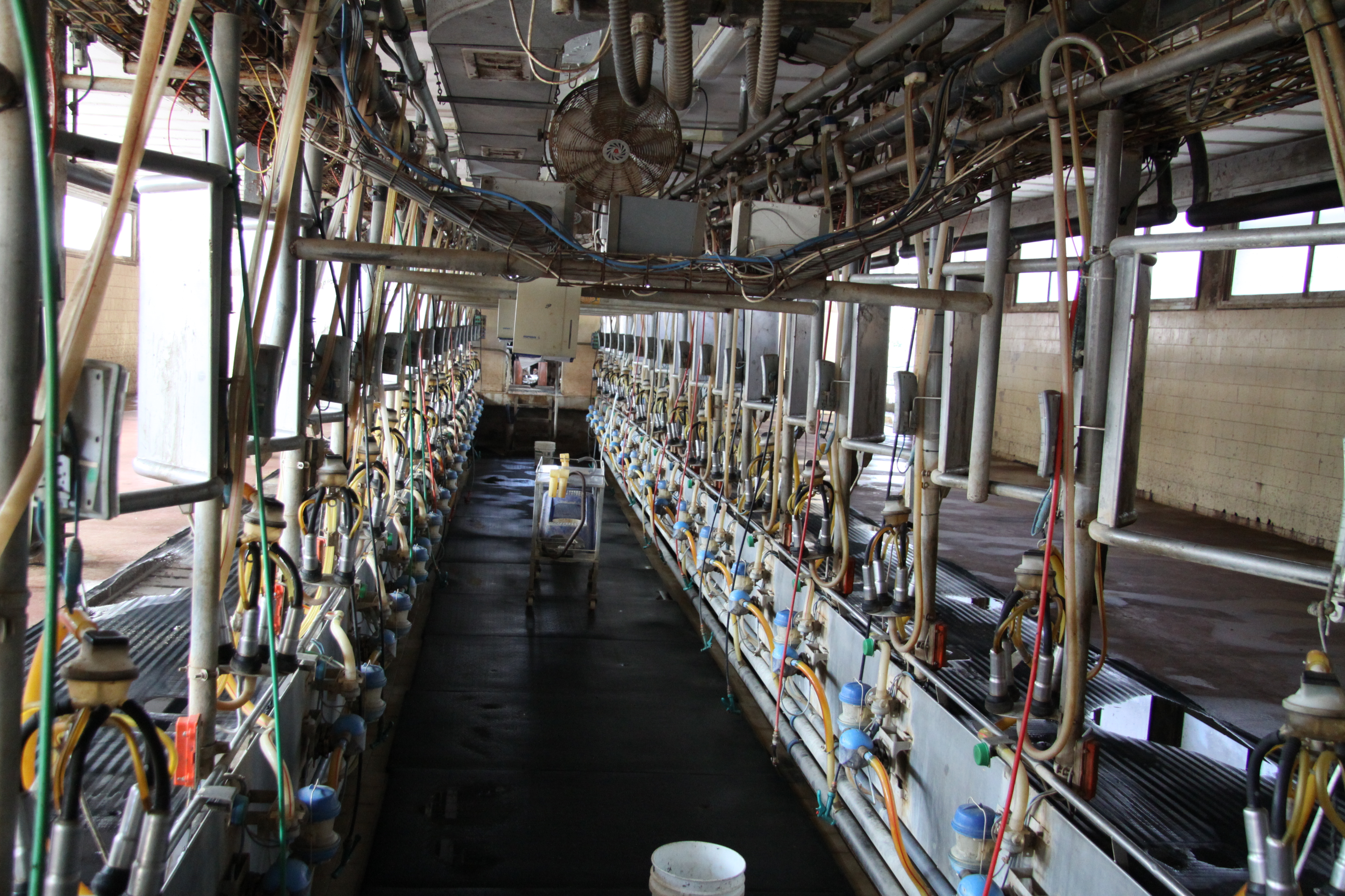 Cow-house in Kibuttz Geva in Israel - Google Maps - Google Earth